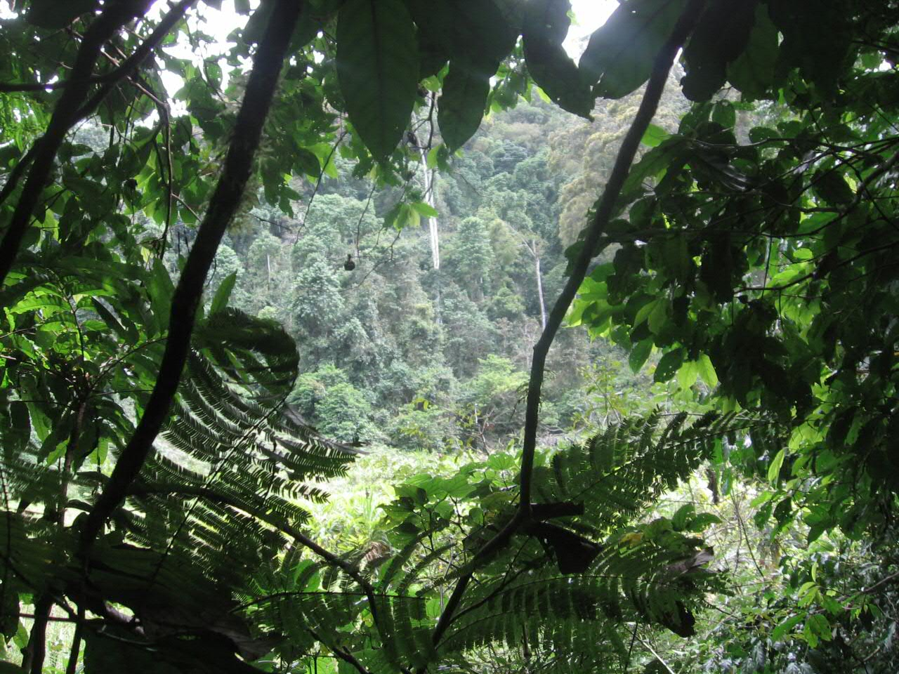 View of the rainforest in the Udzungwa Mountains, Tanzania.